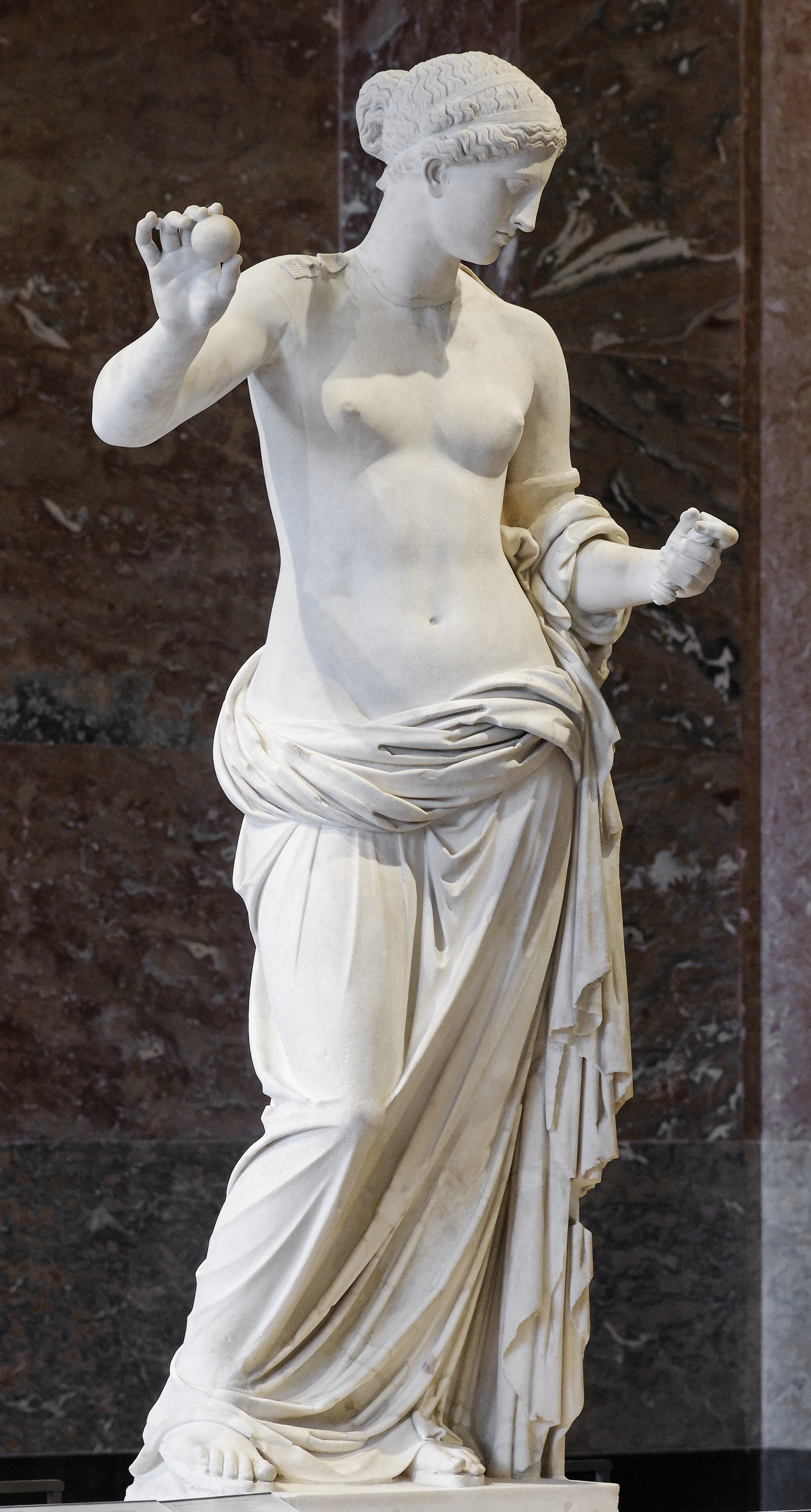 Statue of Aphrodite, known as the Venus of Arles. Hymettus marble, Roman artwork, imperial period (end of the 1st century BC), might be a copy of the Aphrodite of Thespiae by Praxiteles. The apple and the mirror were added during the 17th century. Found in the ancient theatre of Arles, France.